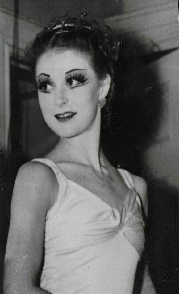 Photo of Moira Shearer in 1951